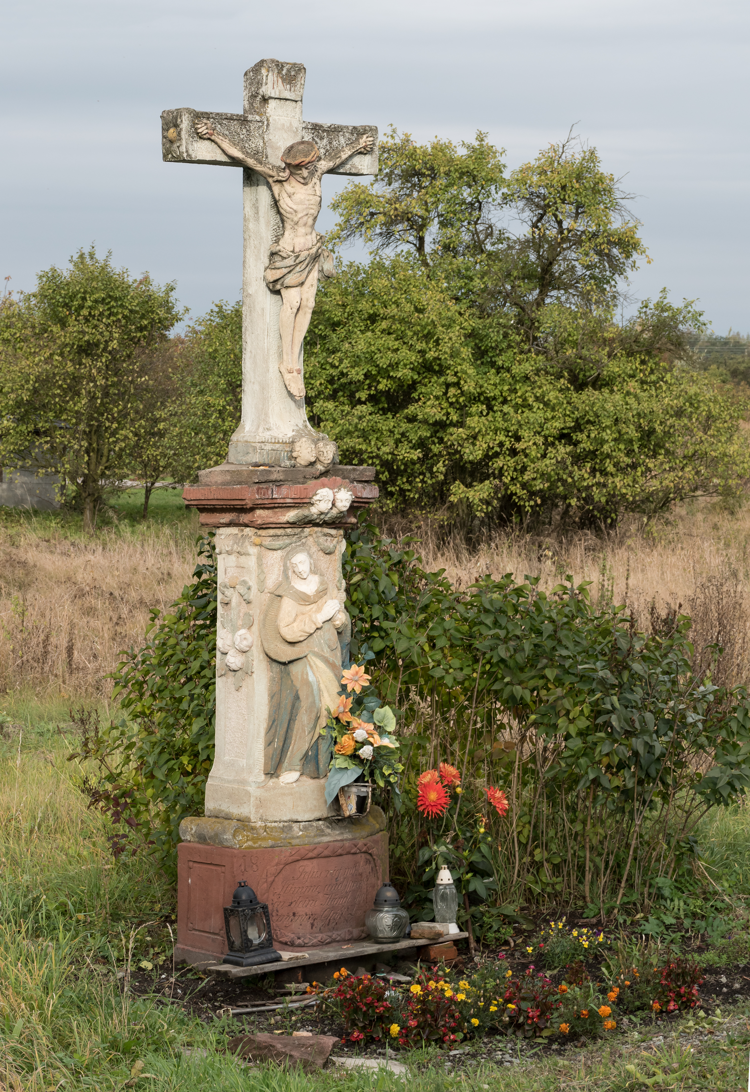 Wayside cross in Koszyn